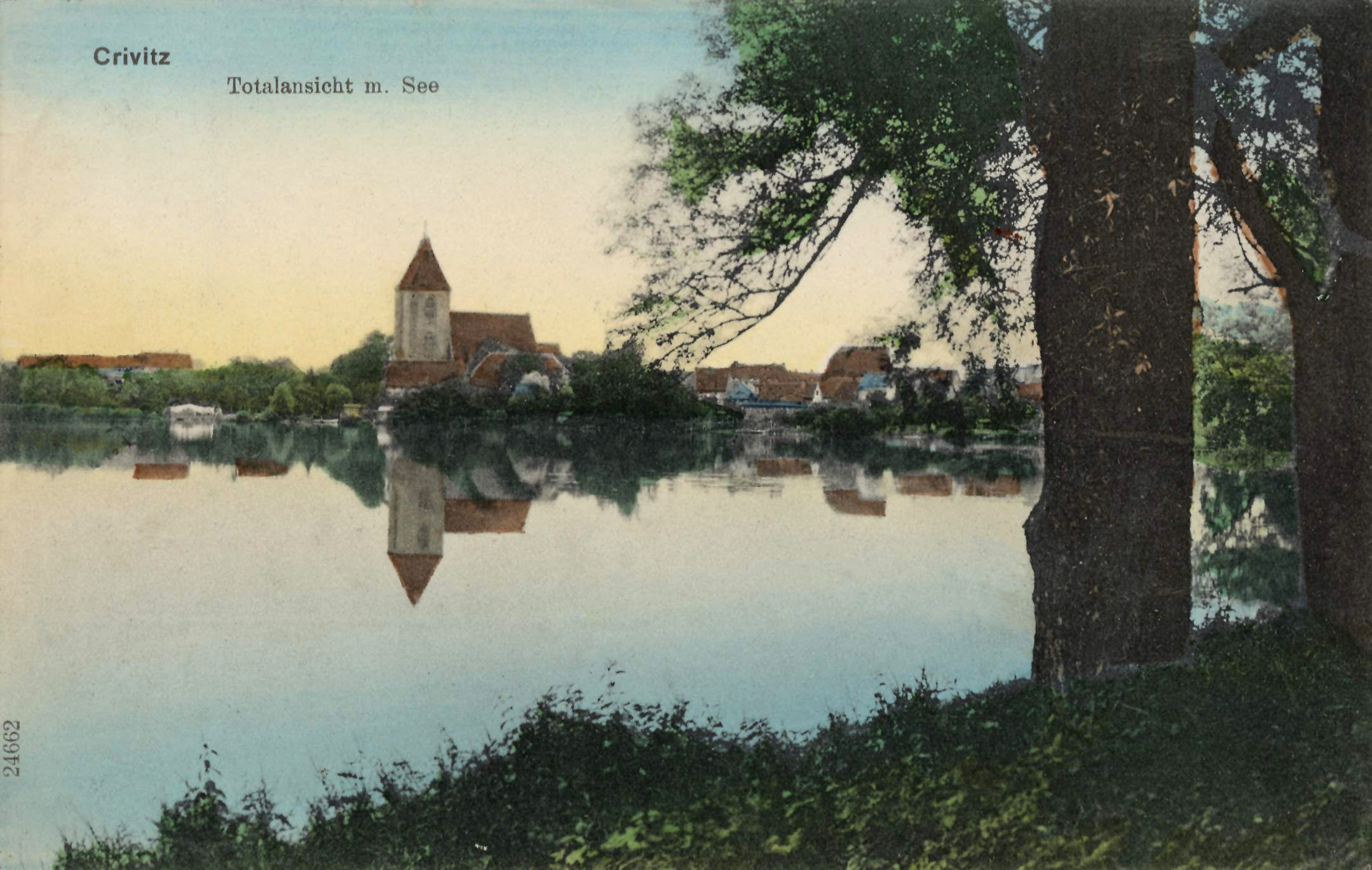 Postcard from 1913 showing Crivitz and the nearby lake.